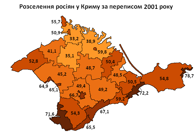 Percentage of russians in Crimea according to 2001 census